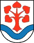 Coat of Arms of Reichstädt